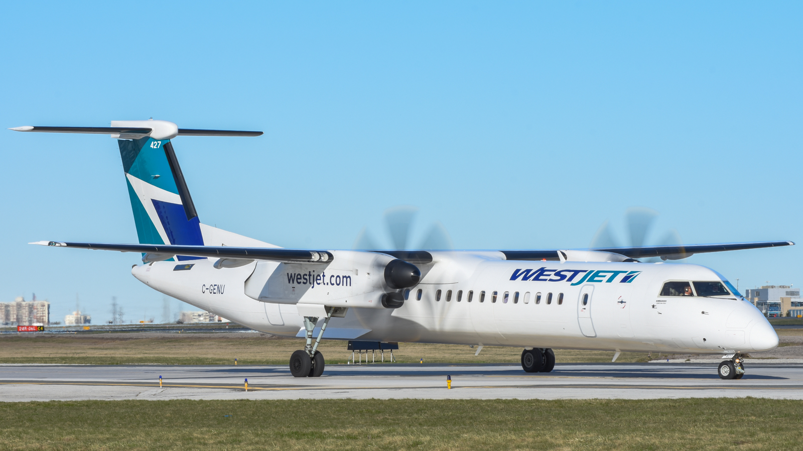 Westjet Bombardier Dash 8 Q400